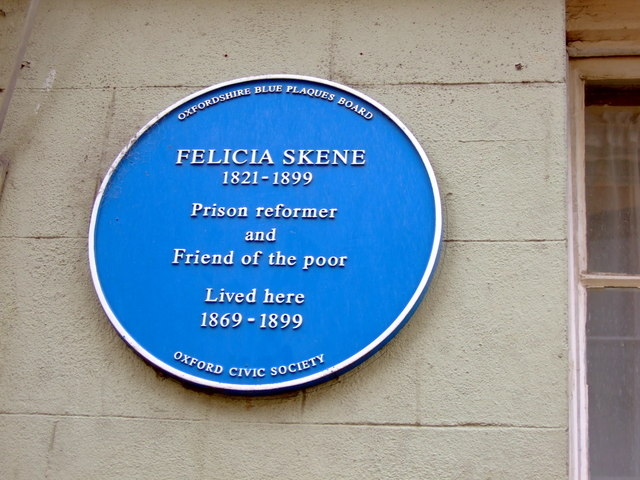 Felicia Skene in St Michael's Street Despite a cosmopolitan, upper-class background Felicia Skene became keenly interested, and involved, in contemporary social problems. While still a young woman she gave assistance in a cholera epidemic and got to know Florence Nightingale. The first woman in England to be appointed Prison Visitor, she pleaded for prisons to be places of reform and believed in individual counselling. She played the harmonium and organ in the prison chapel and would meet released prisoners at the prison gates at 6 a.m. to provide breakfast and other practical assistance. She rescued prostitutes and promoted the idea of a more liberal regime in penitentiaries. She was also a writer and her novels dealt with the same issues. She wrote to raise money for her favourite charities, one of which was to support 'fallen' women. In her novel 'Hidden Depths' the independent heroine's journey takes her into the unknown territory of London's brothels and madhouses; both institutions are graphically portrayed. The terrible conditions in which women live while their seducers go unpunished prompts the question 'Shall it be ever thus?' 'Shall its hideous wickedness still be ignored, glossed over made light of, as regards the destroyers, while the destroyed are branded with dishonour and driven to deeper evil by the blackest injustice that ever disgraced a Christian land?' She was buried in St Thomas’s churchyard and there is a memorial plaque to her in the cathedral. She was regarded as a local saint by Oxford people of all conditions but remarked in old age: "I am like the Martyrs’ Memorial: everyone knows me and no-one is interested in me".